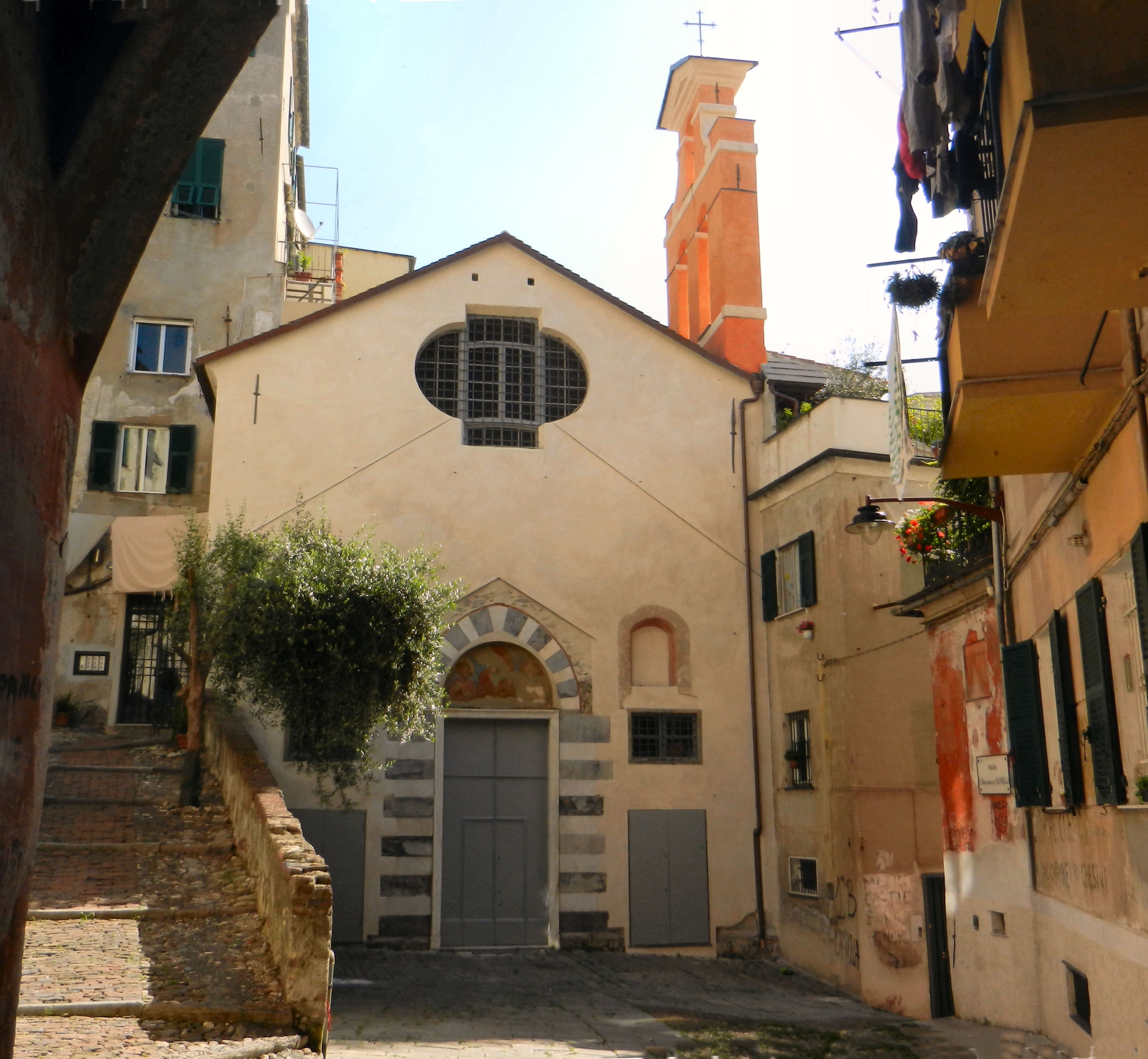 Genoa, Italy, church of San Bartolomeo dell'Olivella